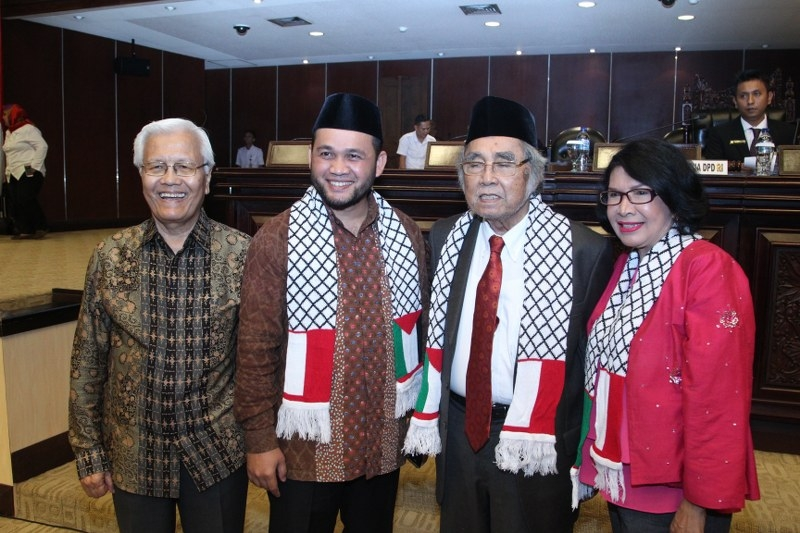 The inauguration of Sabam Sirait as inter-time substitute member of the Regional Representative Council.